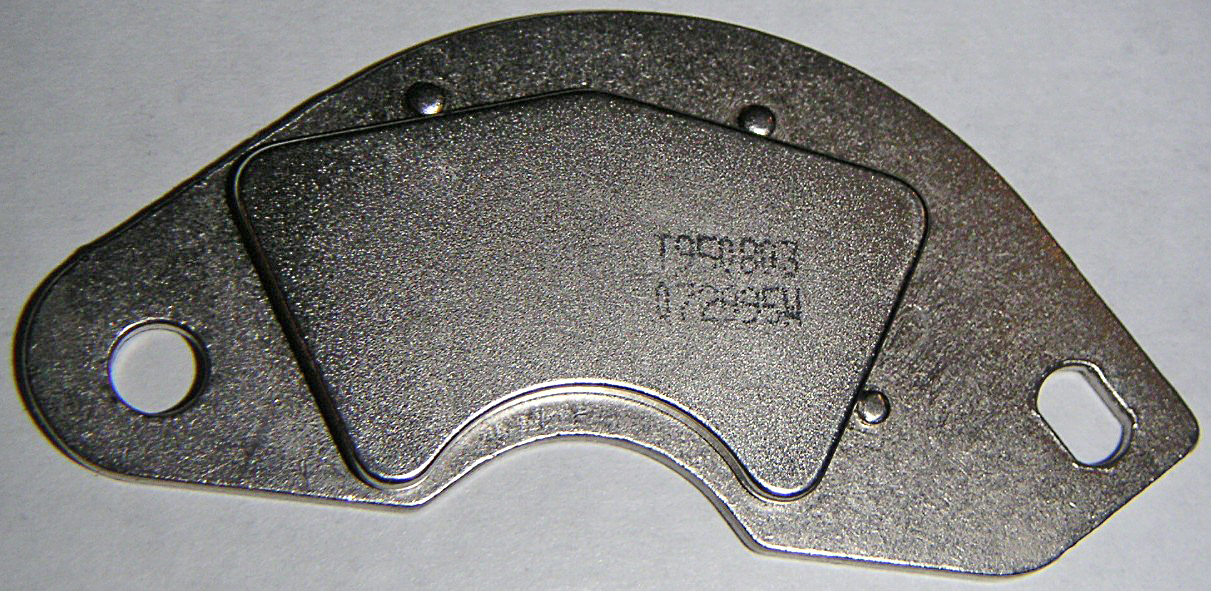 Neodymium magnet on a bracket from a computer hard drive.